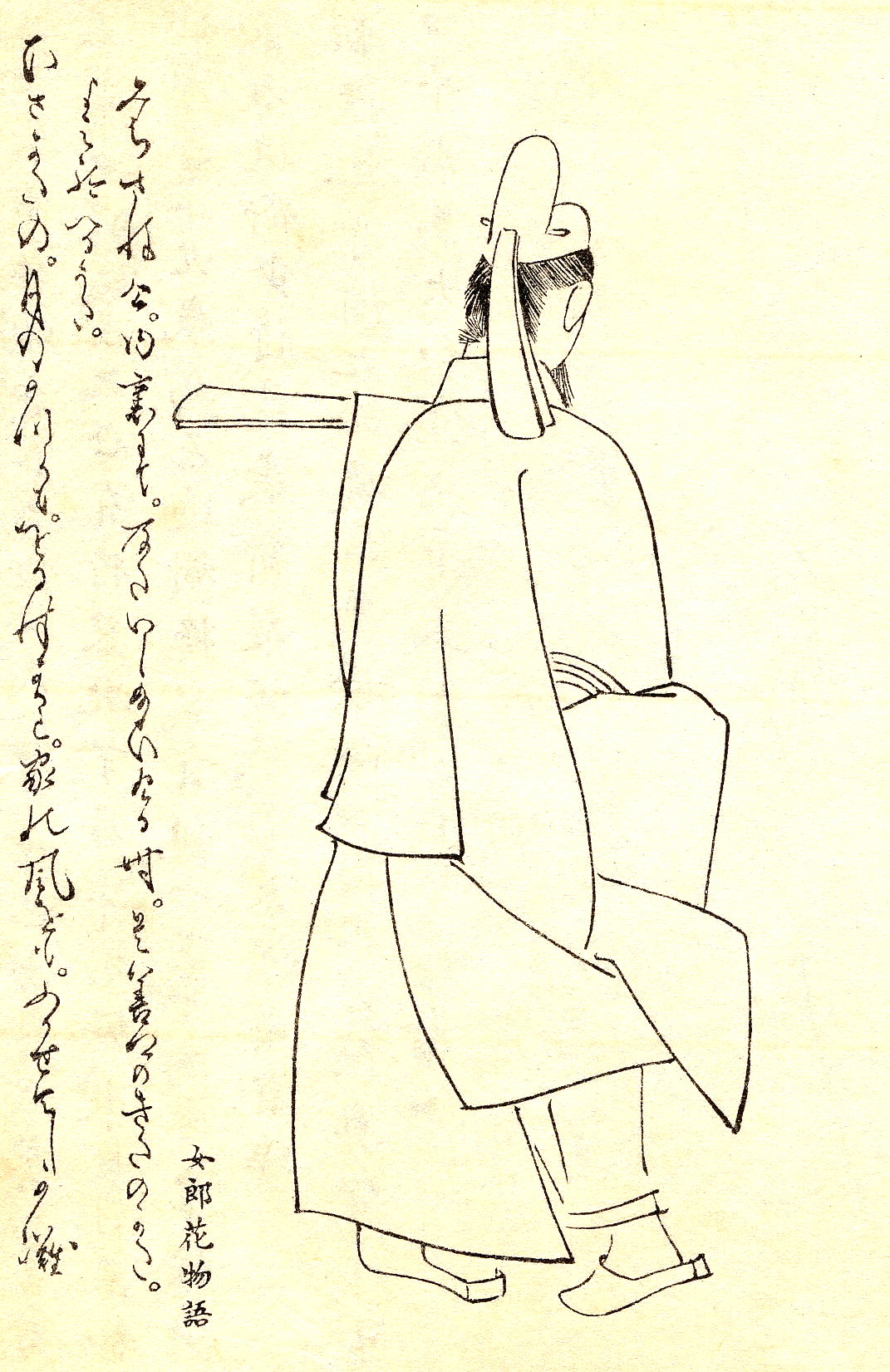 Sugawara no Koreyoshi(菅原是善) was a Japanese court noble and Scholar in the Heian era.